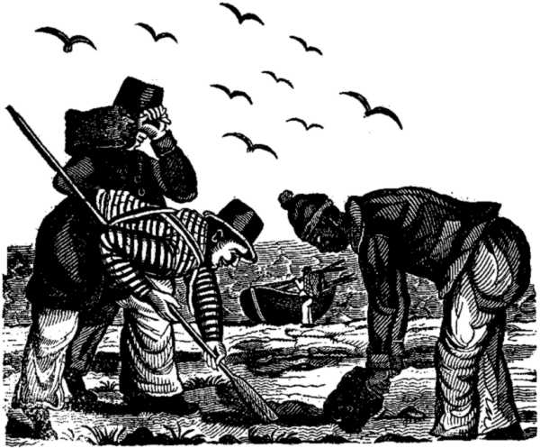 Charles Gibbs and Wansley burying the Money as depicted in The Pirates Own Book by Charles Ellms.